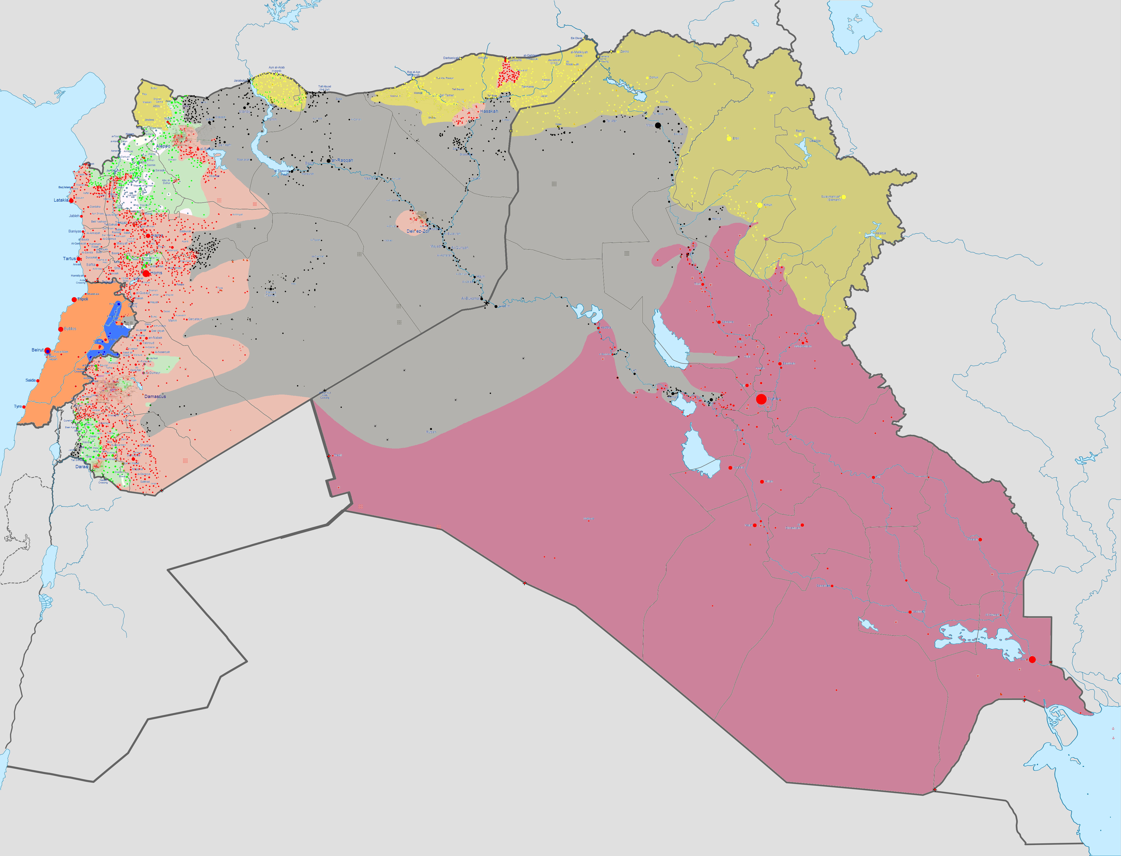 Territories controlled by the Islamic State in Iraq and Syria in June 2015